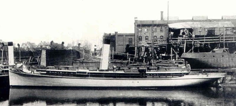 A Vedea-class torpedo boat shortly after being completed